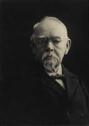 Carl Theodor Sørensen (1824-1914), Danish army officer